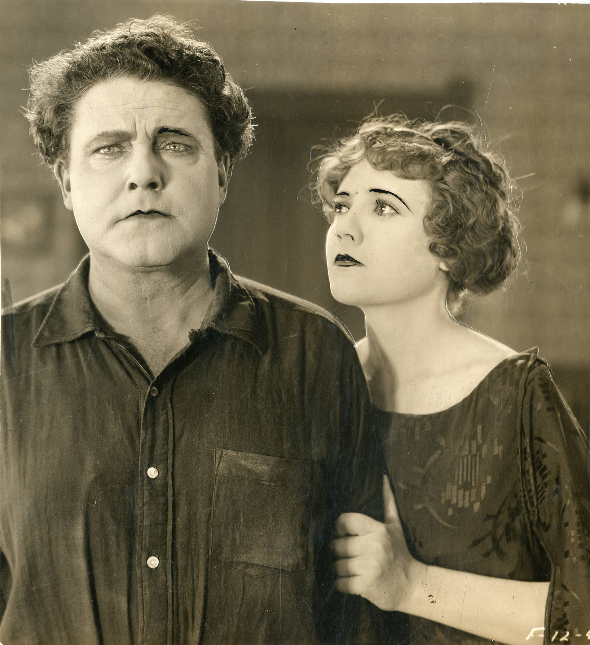 Still from the American western film Without Compromise (1922). Subjects: motion pictures, actors, actresses